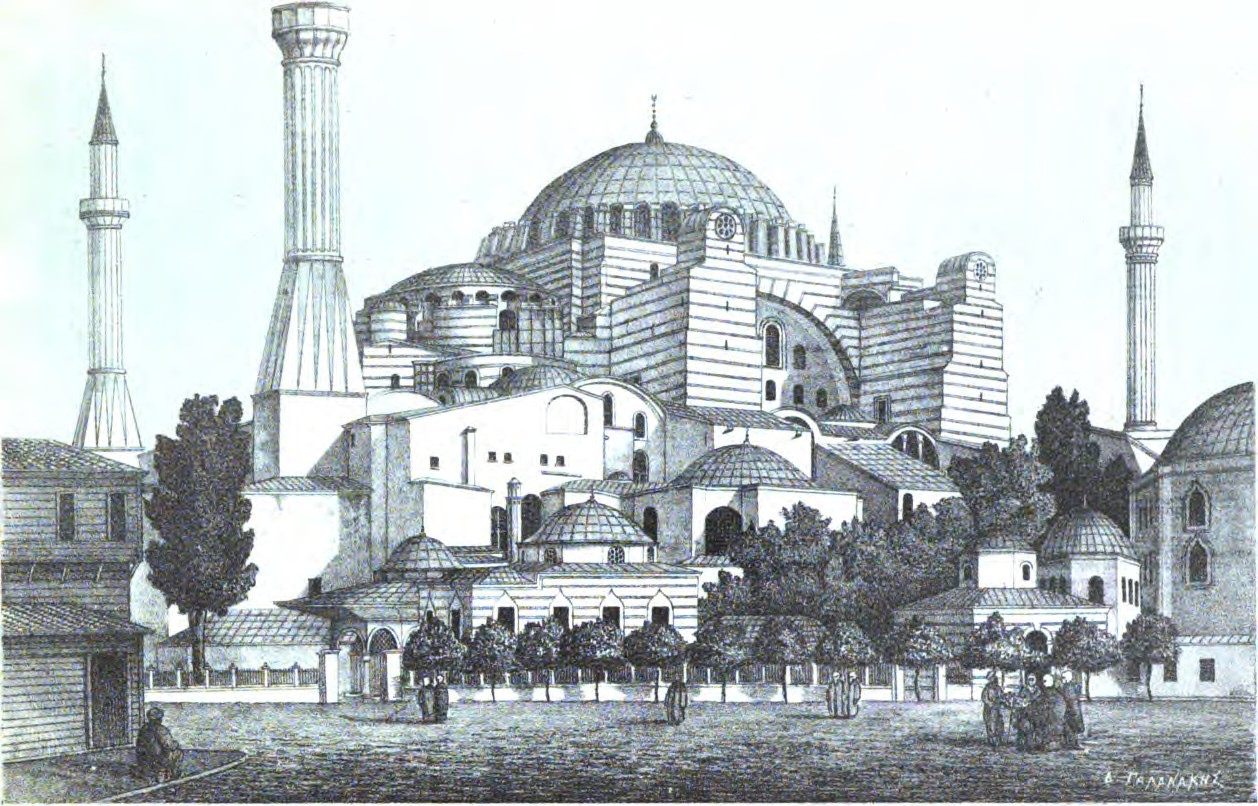 Byzantinai meletai topographikai (1877) Author: Paspatēs, Alexandros Geōrgiou, 1814-1891. [from old catalog] Subject: Inscriptions, Greek Year: 1877 Possible copyright status: NOT_IN_COPYRIGHT Language: English Digitizing sponsor: Google Book contributor: Oxford University Collection: europeanlibraries